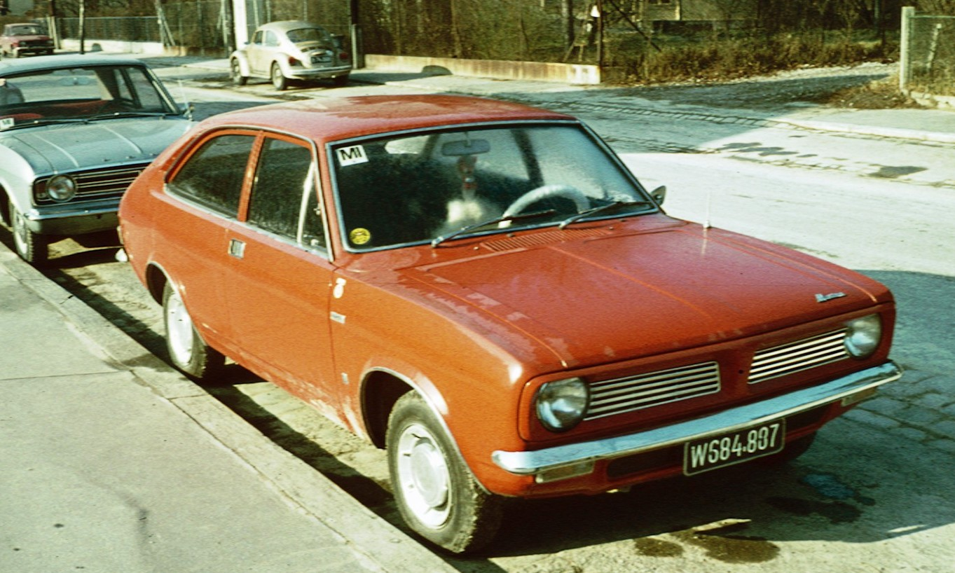 Morris Marina 2 door coupe shortly after model launch. During the 1974 fuel shortage, drivers in Austria found themselves barred from driving their car one day per week. The 'MI' sticker on the windscreen indicates that the driver may not drive his Vienna registered Marina 1.3 on a Wednesday (Mittwoch). The condensation on the screen indicates that the picture was taken on a cold though bright day. Behind the Marina is a Ford Cortina Mk II. This is the Cortina version that was sold in the UK and in much of mainland Europe between 1966 and 1970: it is the competitor model that British Leyland had in their sights as they developed the Morris Marina. In Austria, where the picture was taken, Volkswagen Beetles, like the one across the road, still dominated the market for small cars, though the Beetle was no longer quite the unstoppable sales success it had been a few years earlier: later in 1974 it was joined in the VW line-up by an interesting new model inspired by one Italian and designed by another.